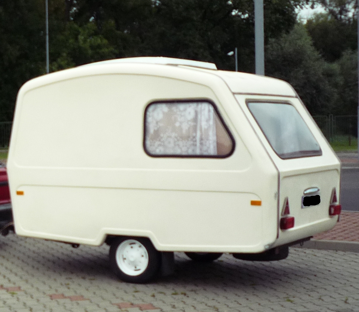 Polish caravan Niewiadów N126b produced in 1979 and slightly modified (rear lights). Kostrzyn nad Odra, July 2009